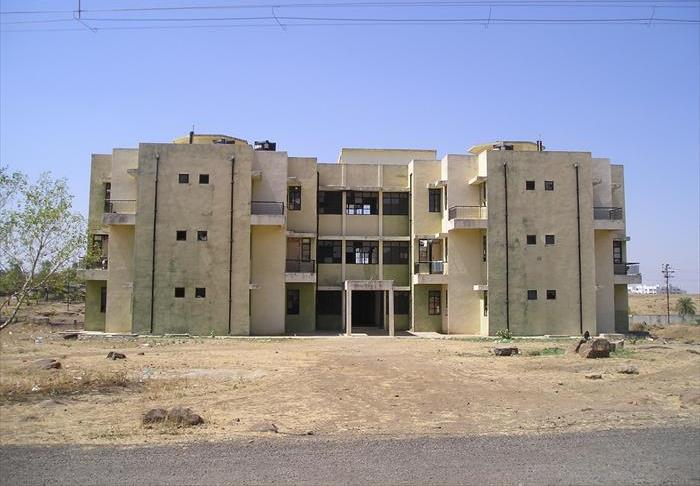 Boys Hostel